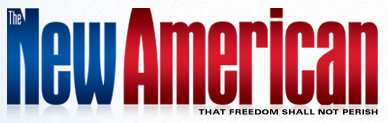 Logo of the the magazine The New American.